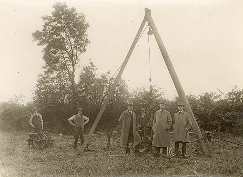 The gentlemen in hats and overcoats are (l. to r.) the Right Honourable James McMahon; Lord Morris; Senator James Moran T.C. All three were directors of the Liffey Power Syndicate and are seen here inspecting boring operations at Poulaphouca, Co.Wicklow as part of a Hydro-electric development initiative. Woudn't it be excellent if we could identify the workers?? Date 18 August 1923 NLI Ref.: HOG222